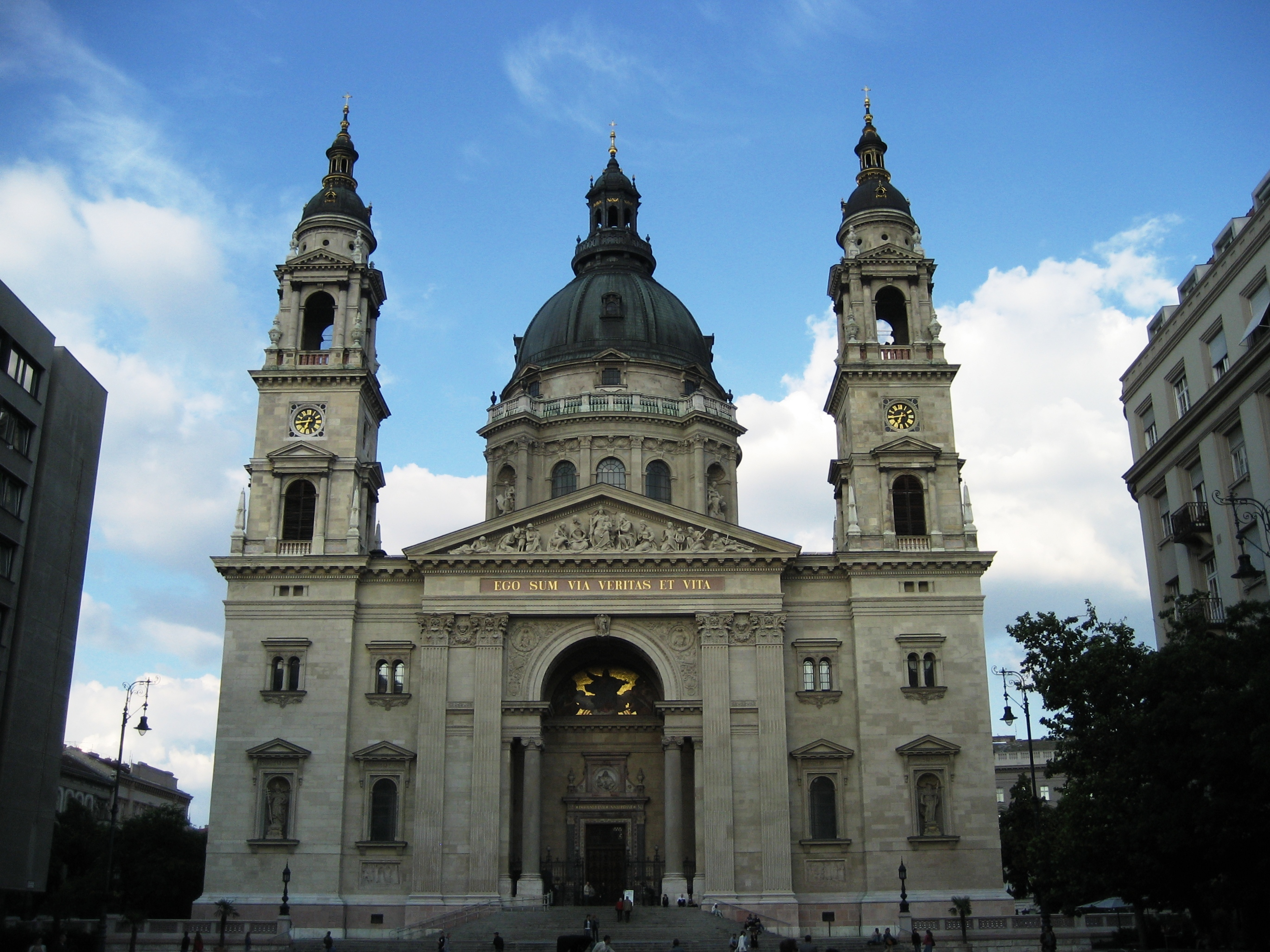 Saint Stephen's Basilica, Budapest, Hungary, Europe